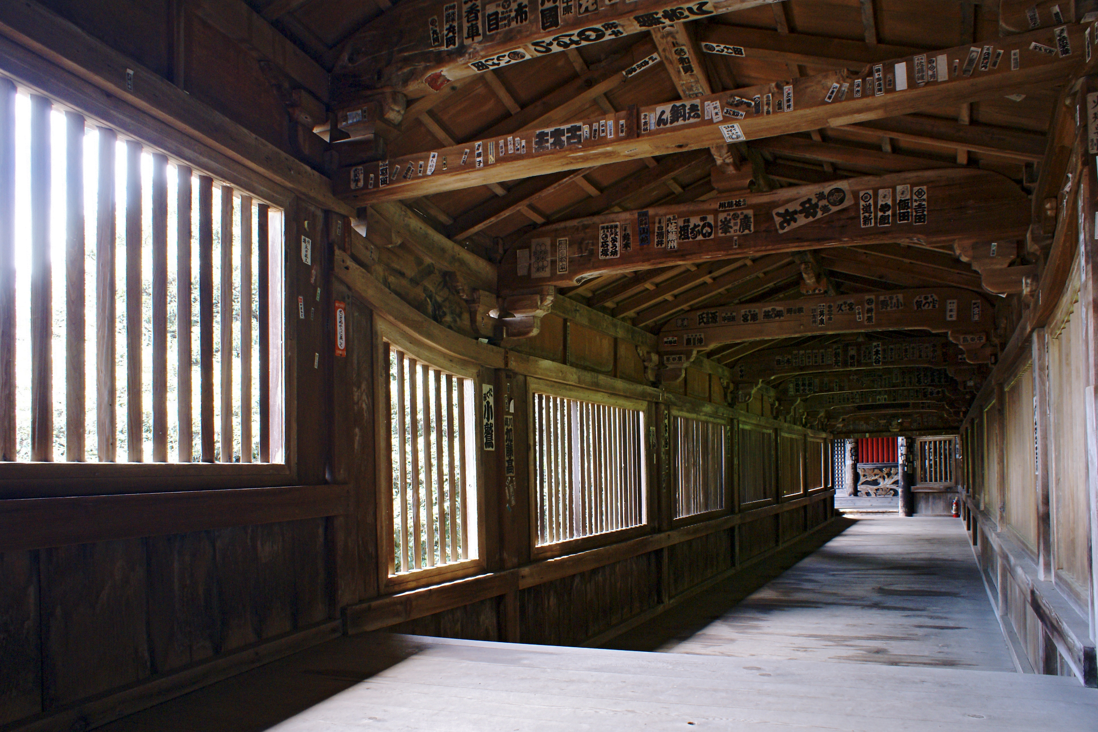 Hogonji in Nagahama, Shiga prefecture, Japan